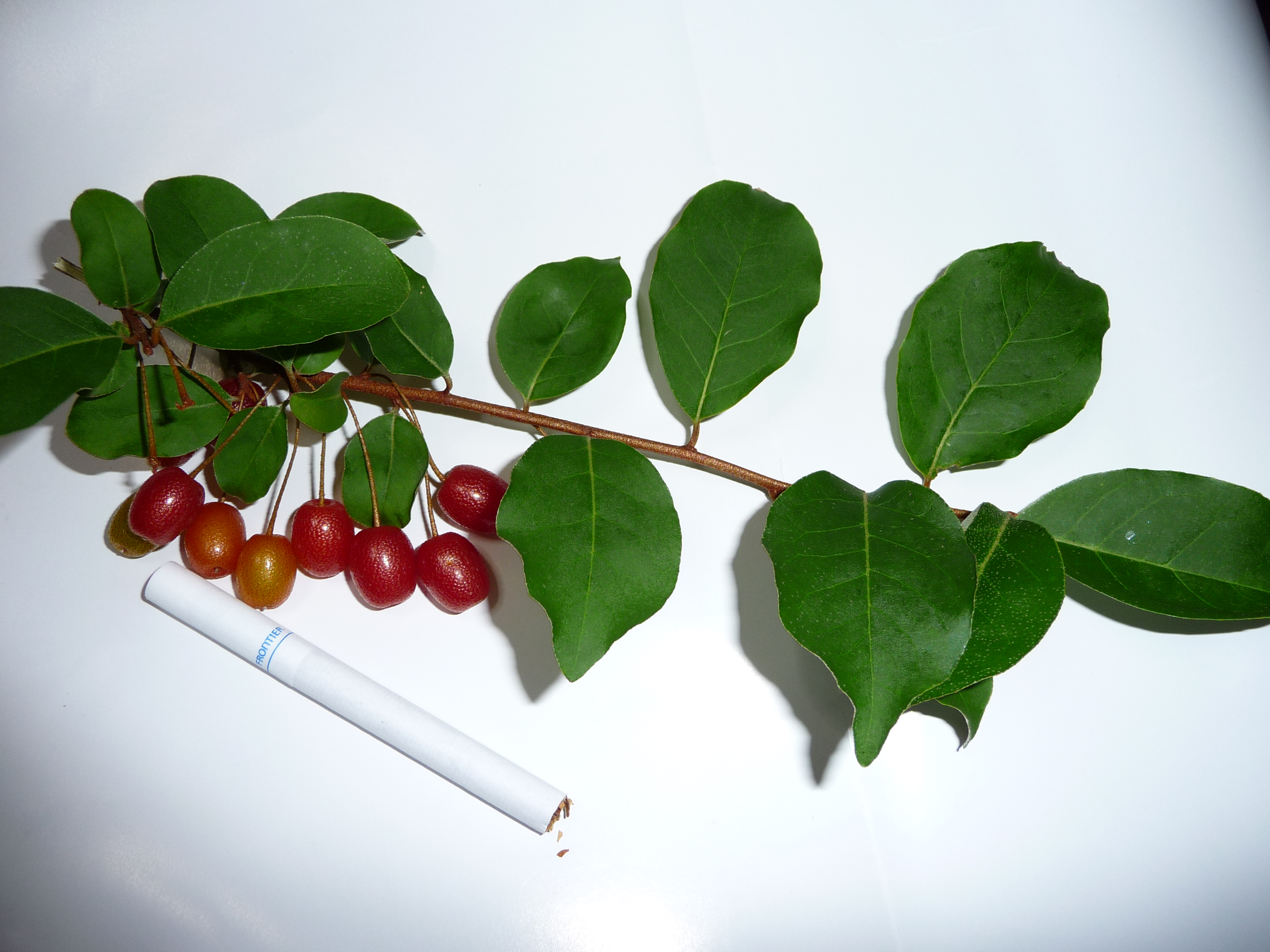 Natsu-gumi (Summer-gumi) or Cherry Silverberry in Japan with cigarette for size comparison